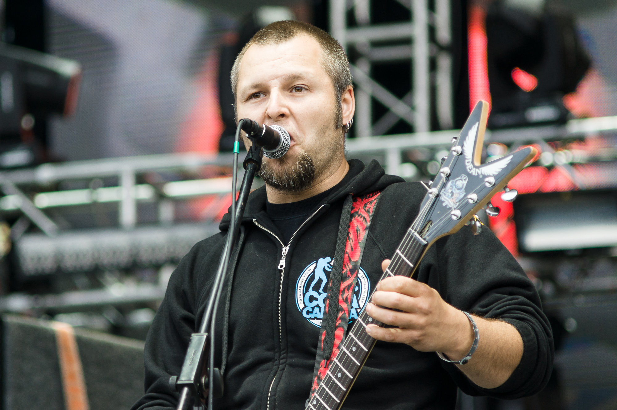 Jakub Łuczak, singer and guitarist from band Ametria.